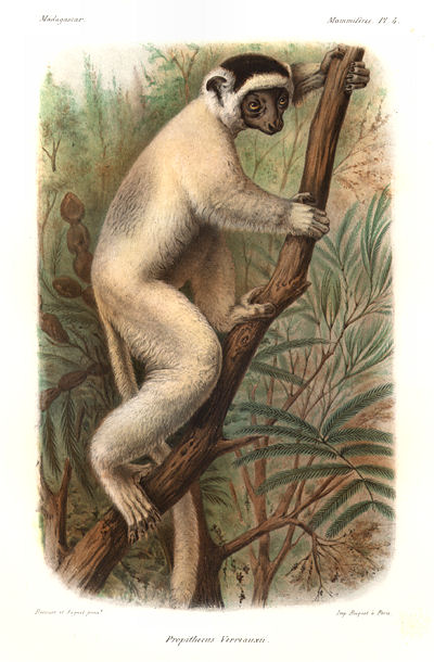 Verreaux's Sifaka (Propithecus verreauxi) Original caption: Propithecus Verreauxi typicus (A. Grandidier), adulte, tué sur les bords du Morondava (côte O. de Madagascar), au tiers de la grandeur naturelle. La tache lombaire grise n’est pas constante chez tous les individus. English Translation (partial): Propithecus Verreauxi typicus (A. Grandidier), adult, killed on the edges of Morondava (west coast of Madagascar)... The gray lumbar spot is not constant on all individuals.